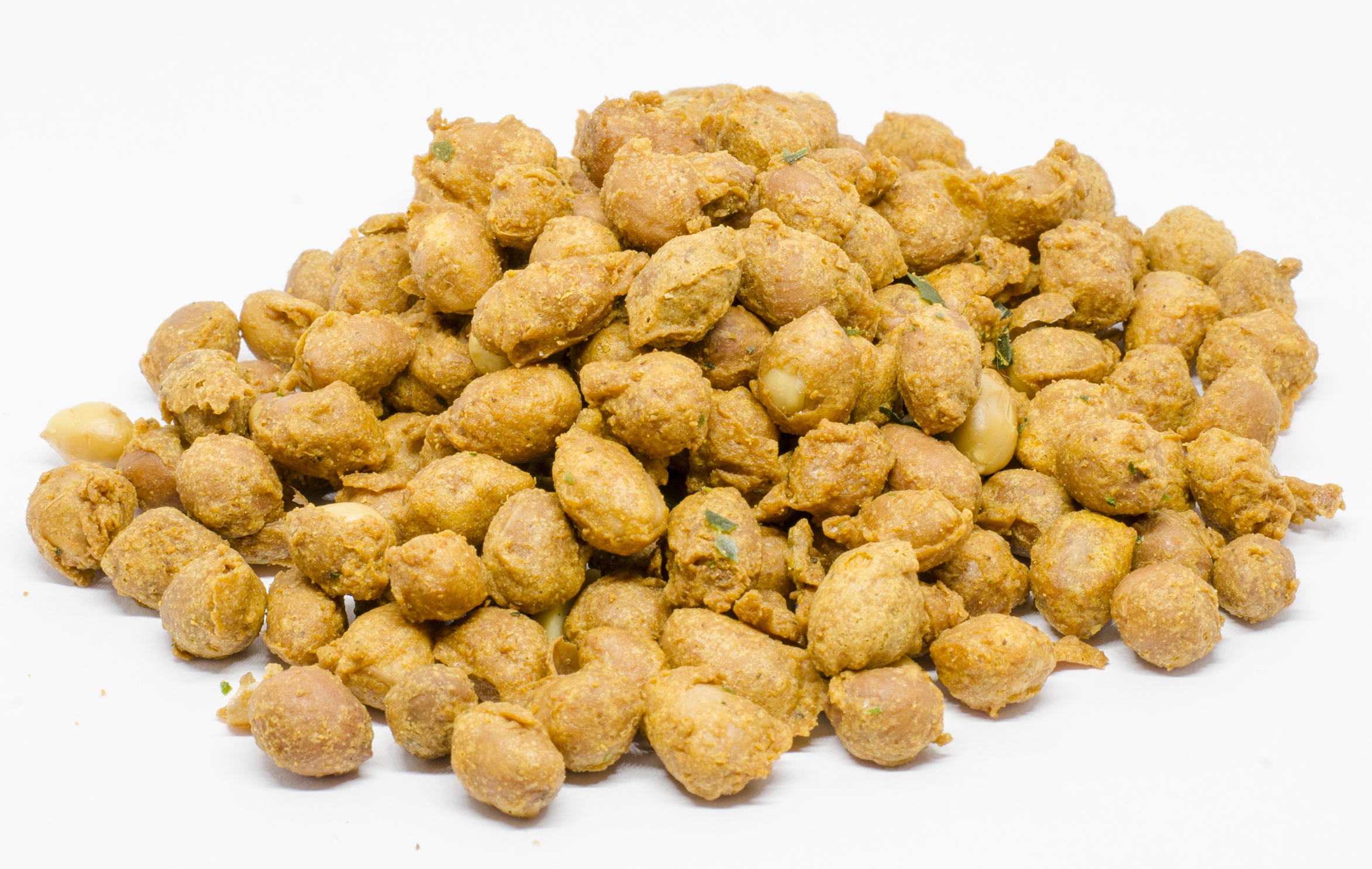 Roasted Peanuts (2019)